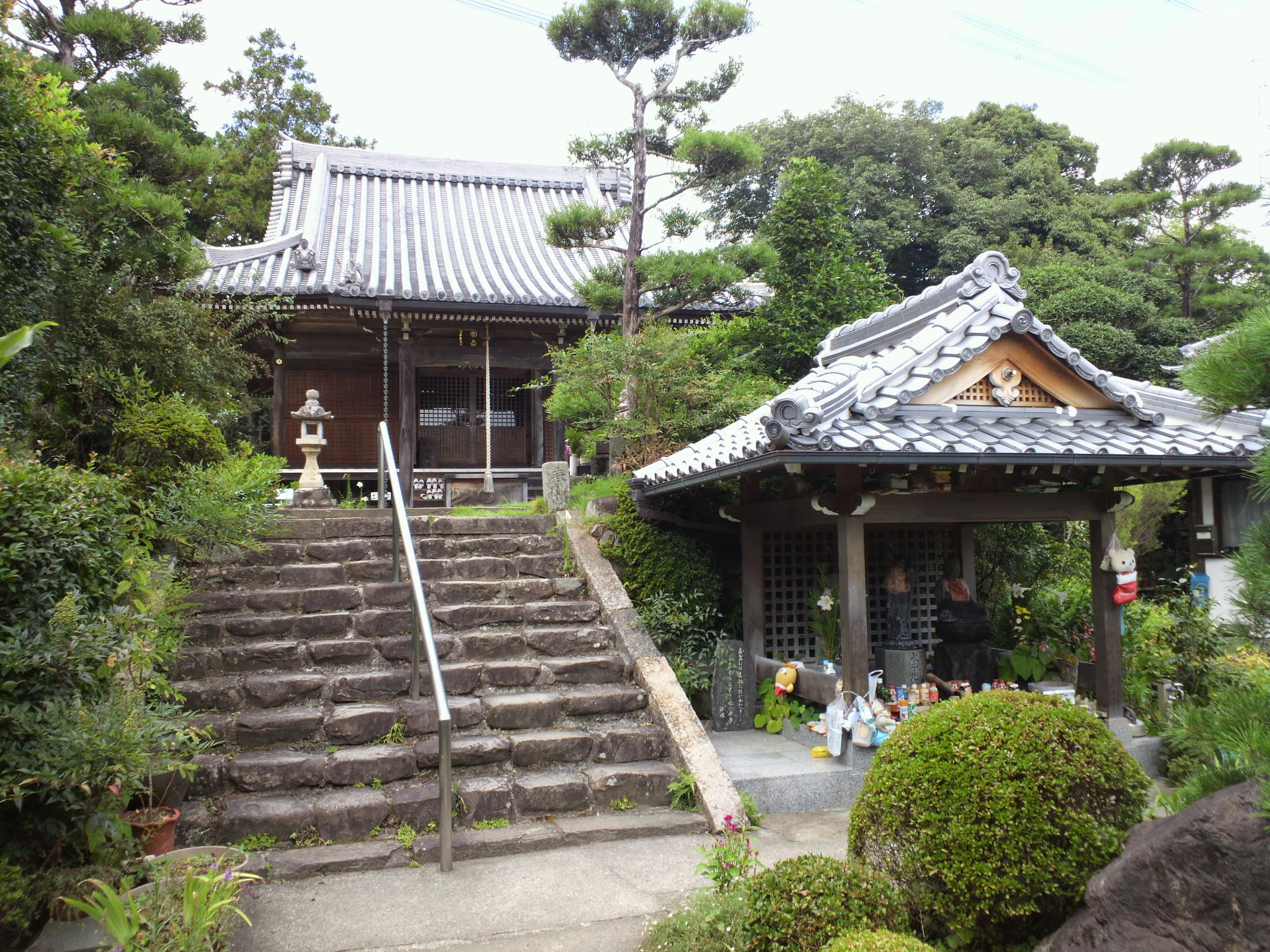 Koyasu Jizouji, Hashimoto, Wakayama, Japan